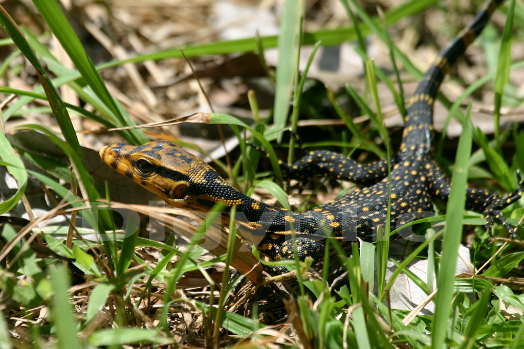 By Paul David Lewin: Philippines